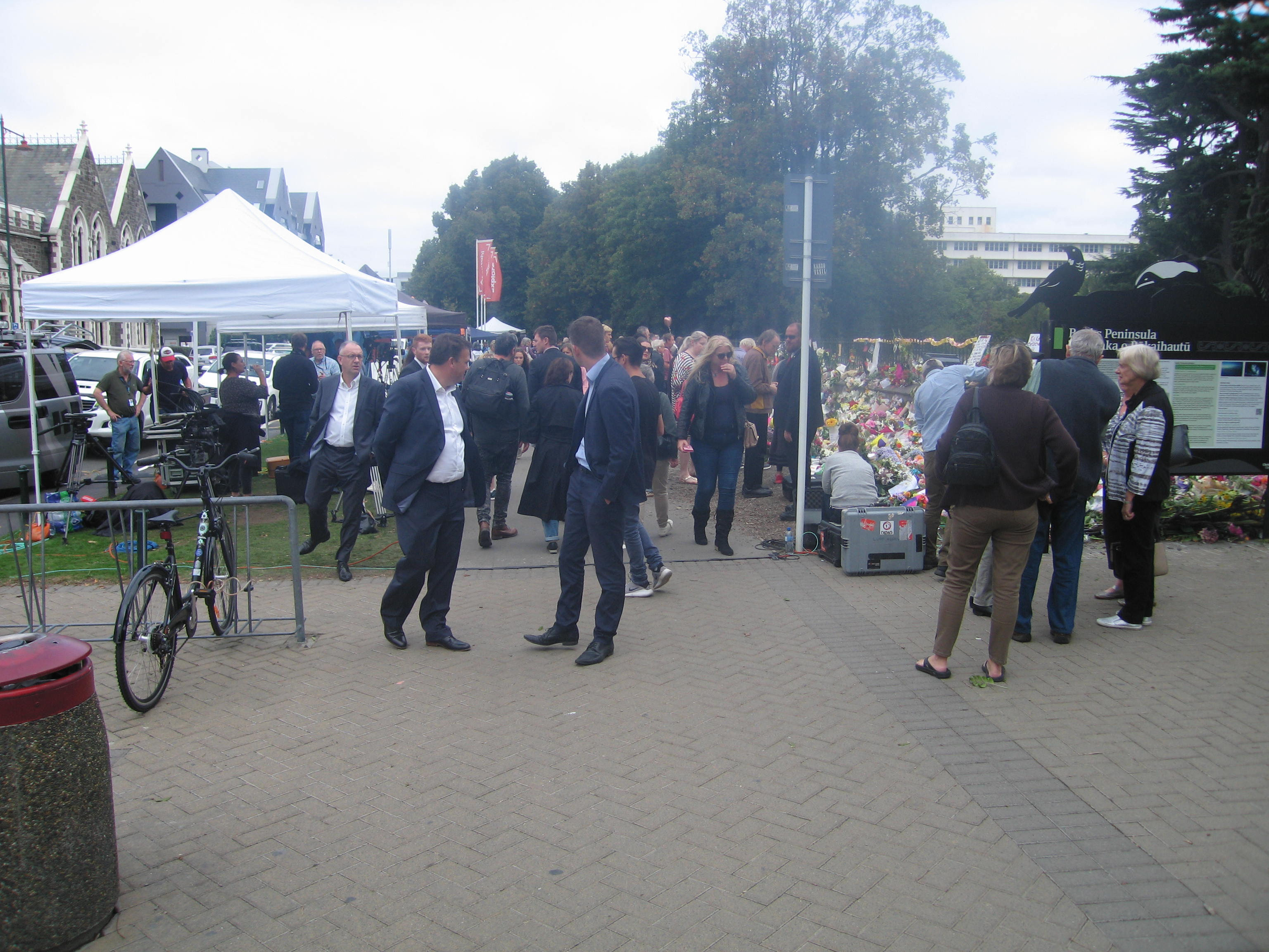 A place designated by Christchurch City Council for the public to place flowers and messages of condolence. Christchurch hospital can be seen in the centre in the background.